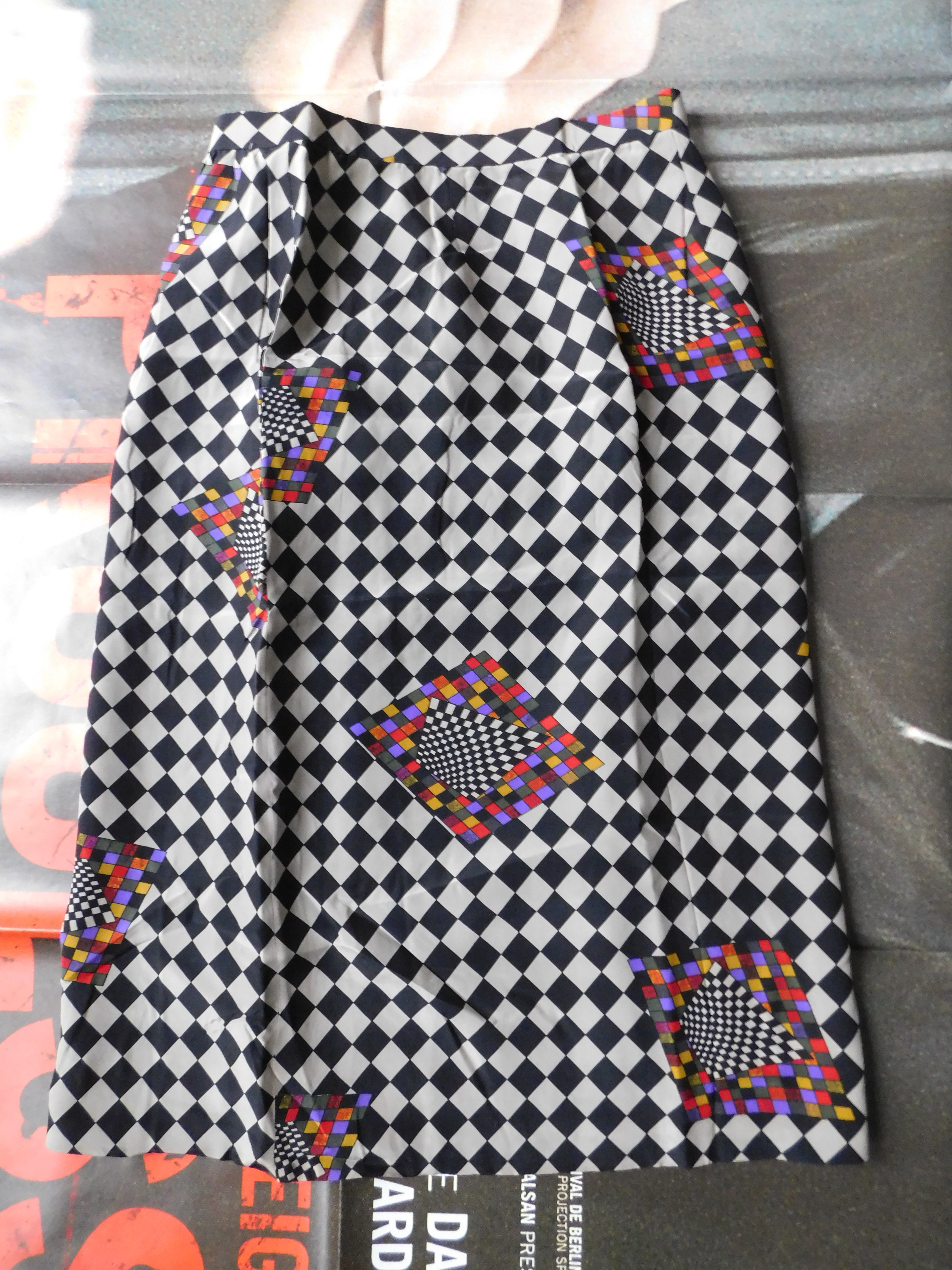 Pencil skirt designed by Kristian Leigh (1980s).